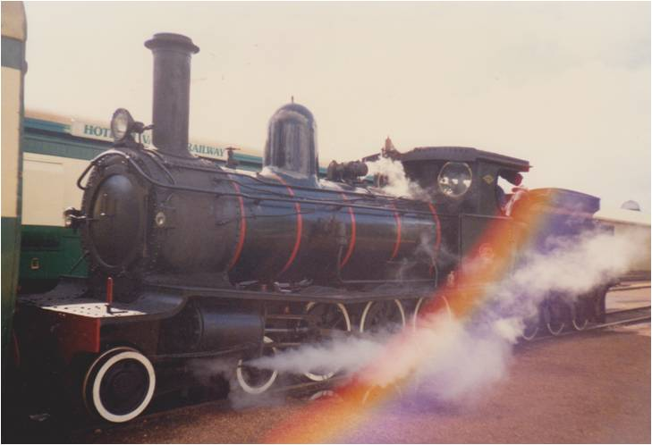 Western Australian Government Railways steam locomotive G123 at Dwellingup Corporal29 (talk) 07:08, 3 September 2011 (UTC)